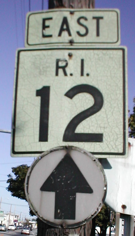 An old RI 12 shield. See Image:RI 12 old shield arrow closeup.jpg for a closeup of the wicked old arrow. Taken September 7, 2002 by User:SPUI.